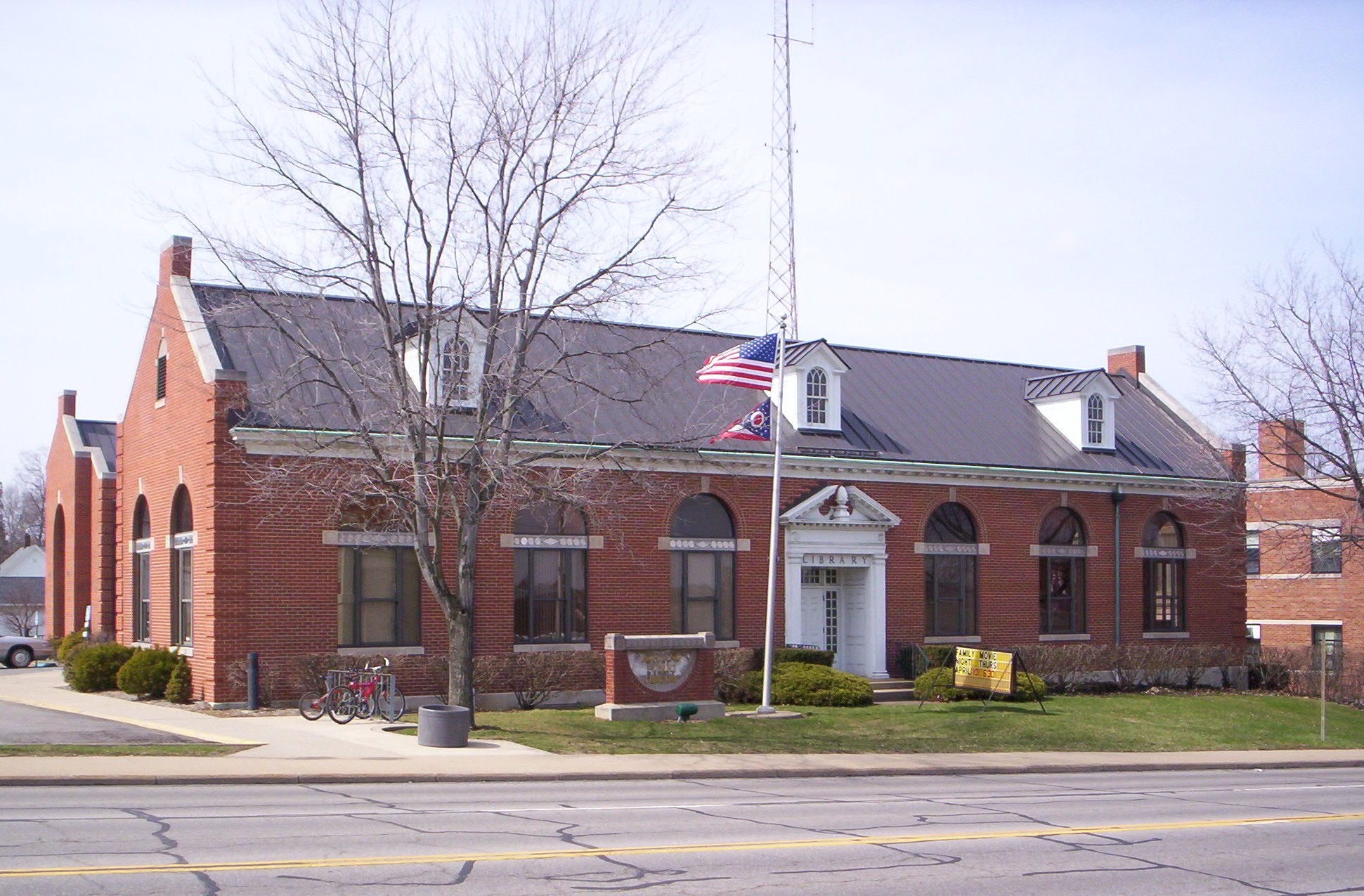 A view of the Ashland Public Library in Ashland, Ohio.